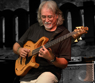 Carles Benavent at Jamboree jazz club in Barcelona ,July 2013